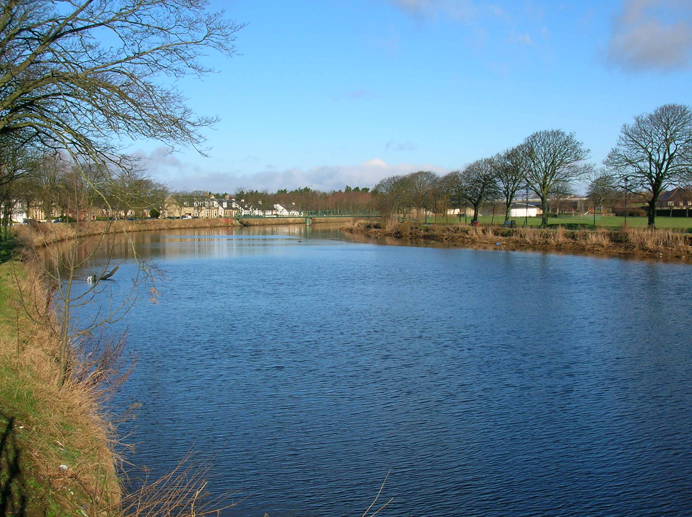 The River Irvine at Low Green, Irvine